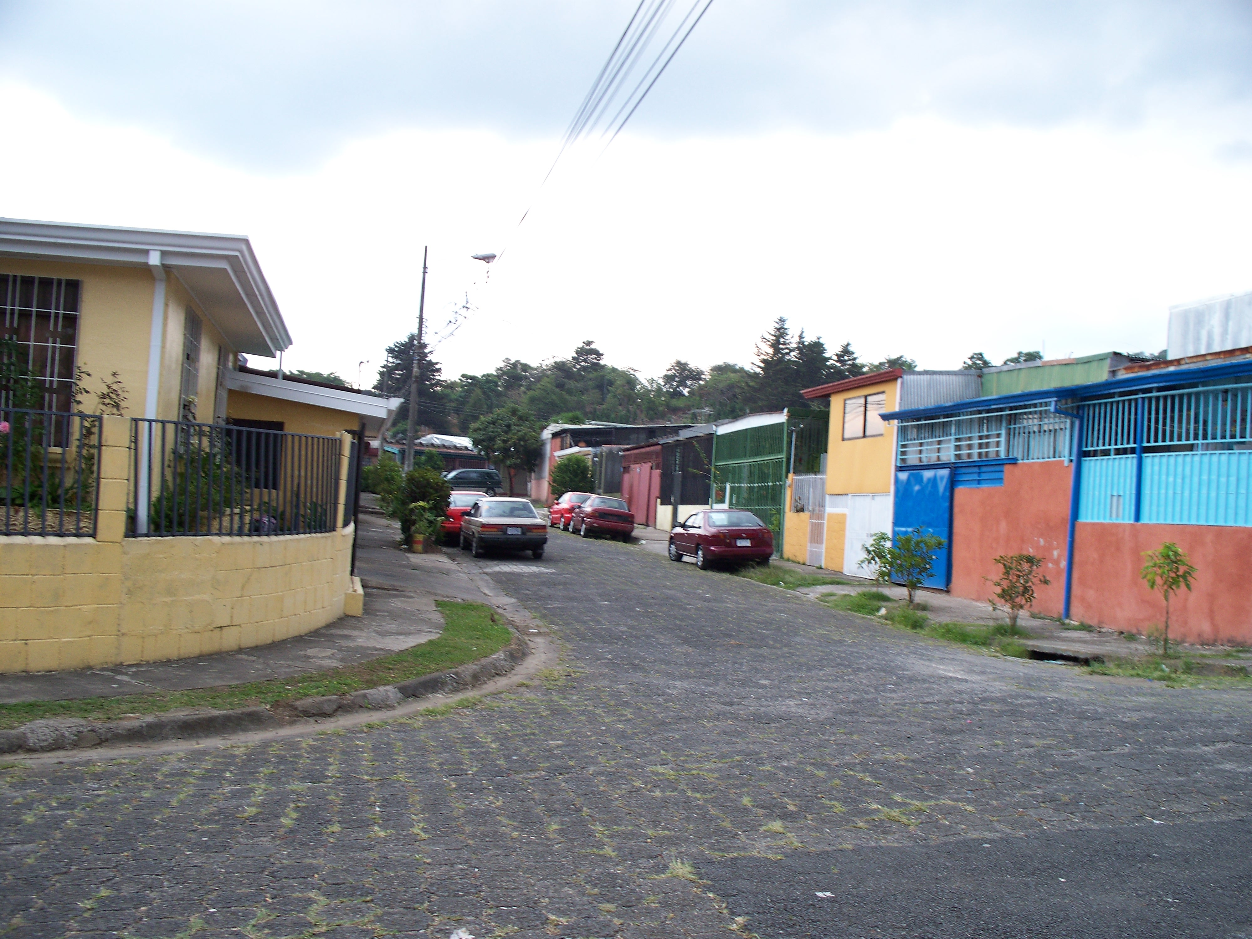 Residential area of Tirrases